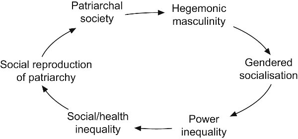 It is a figure of how hegemonic masculinity is reproduced